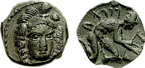 Sicily, Solus. Punic Occupation. Circa 400-350 BC. Æ 13mm (1.46 g, 10h). Helmeted head of Athena facing slightly right Archer kneeling right, drawing bow. Phoenician legend VF, dark green patina. Rare. From the Tony Hardy Collection.